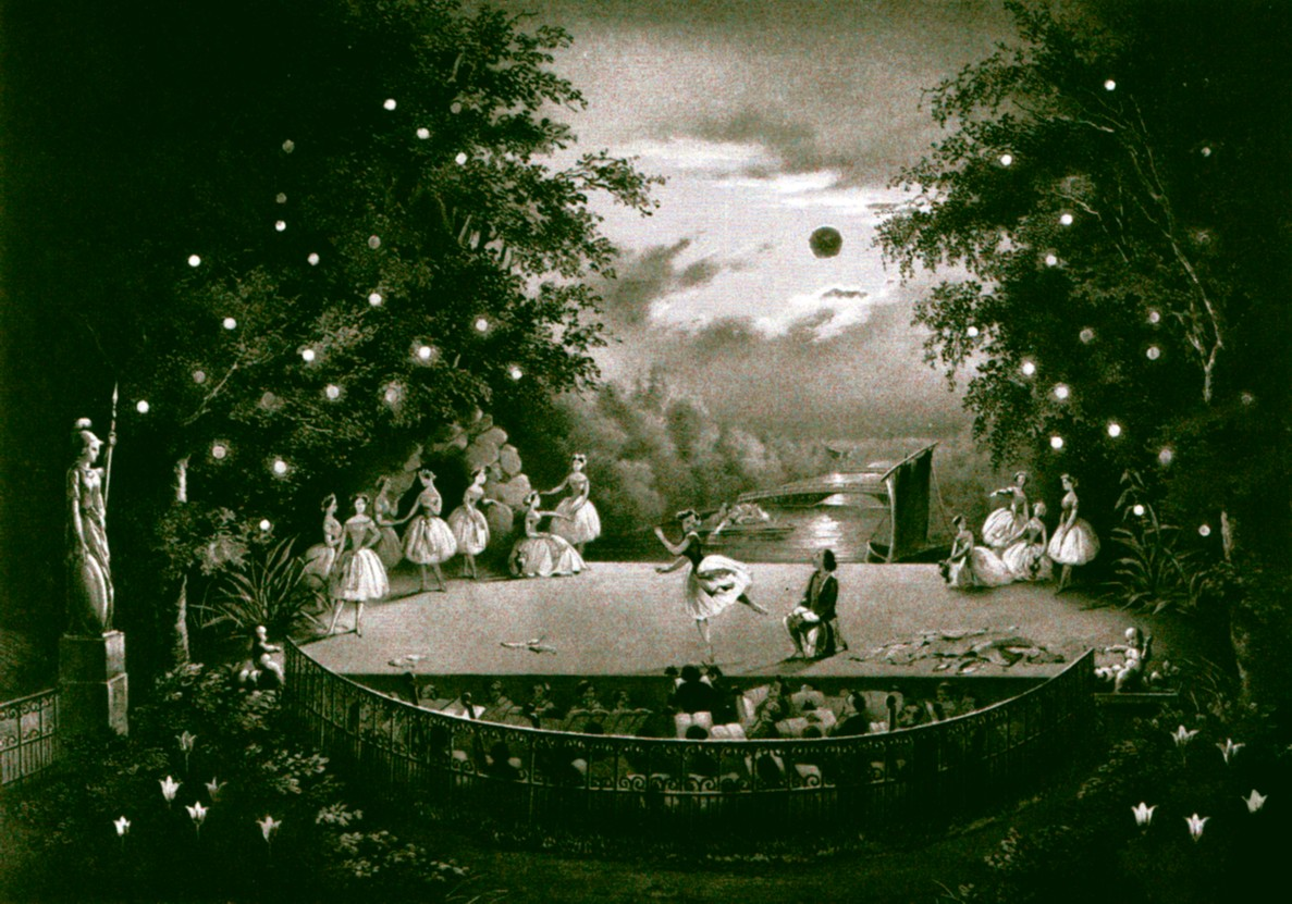 Lithograph depicting an 1851 performance on the outdoor stage of Peterhof - St. Petersburg, Russian Empire - of the choreographer Jules Perrot (1810-1892) and the composer Cesare Pugni's (1802-1870) ballet La Naïade et le pêcheur (a.k.a. Ondine, ou La Naïade). The performance was given in celebration of the birthday of the Grand Duchess Olga Nicolaevna (1822-1892)